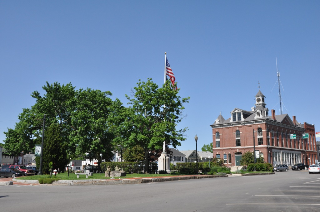 The oval in the center of Milford, New Hampshire. The town hall is off to the right.